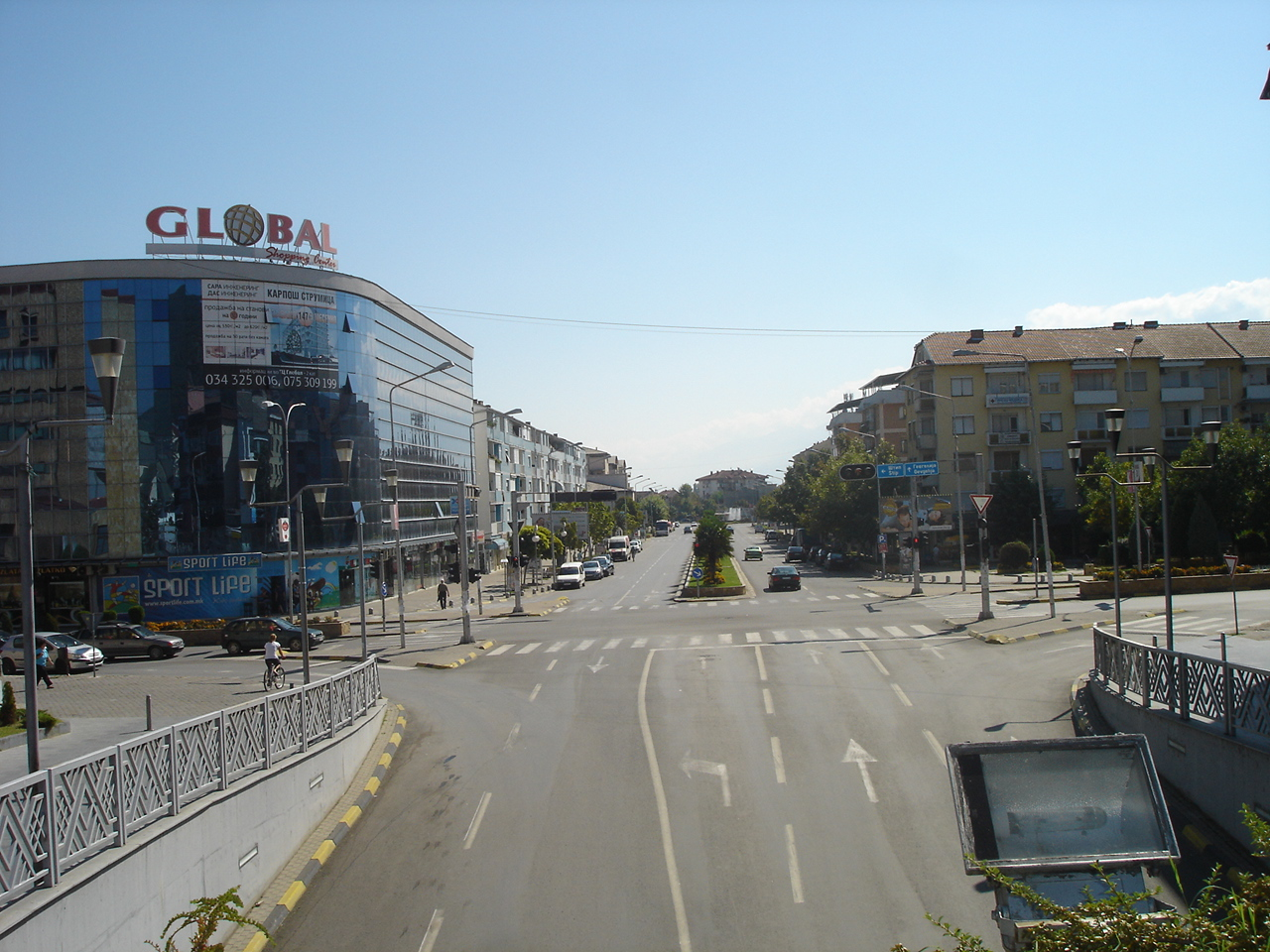 The downtown Strumica, Macedonia